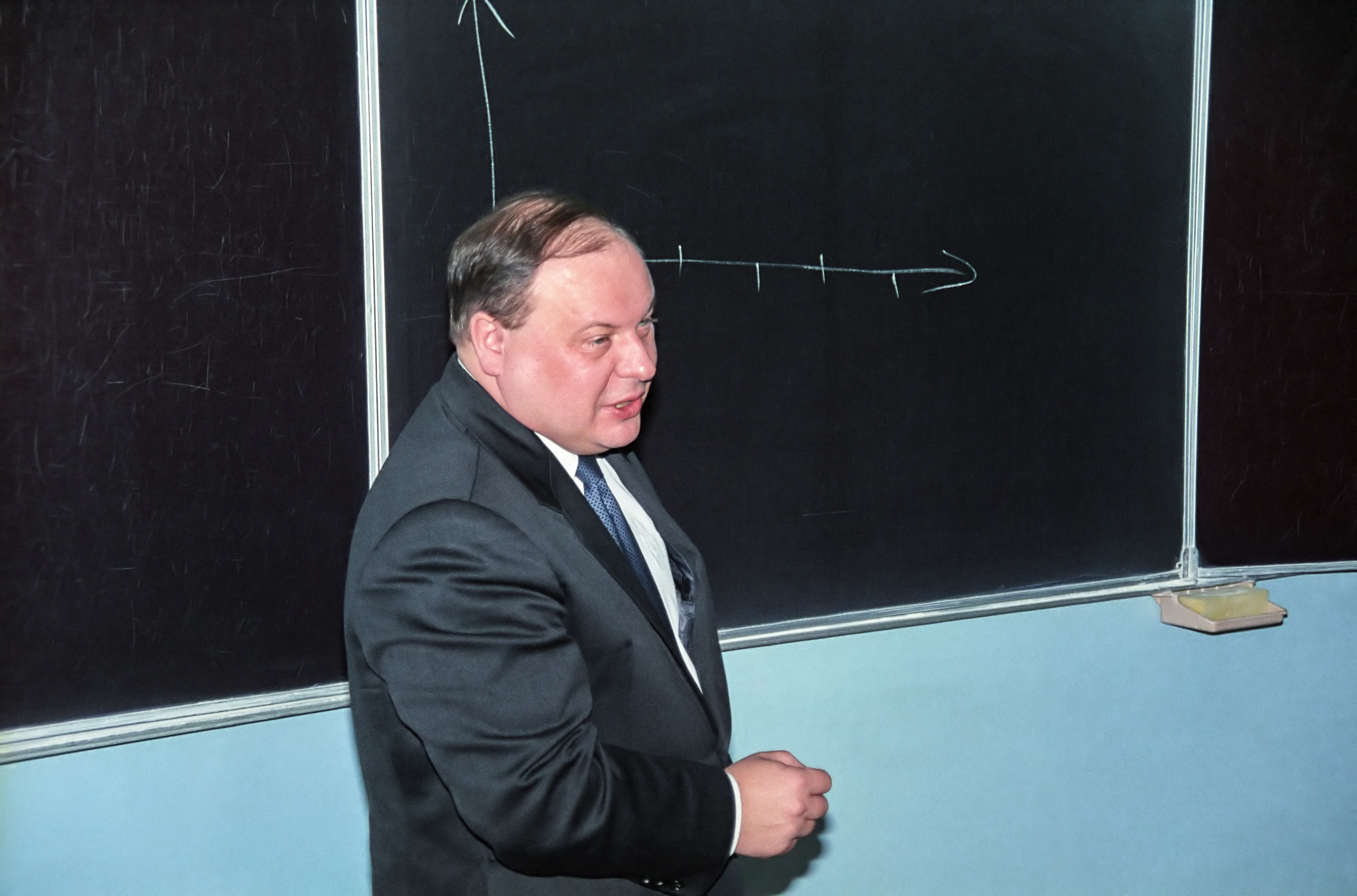 Yegor Gaidar, former Russian minister of finances, visiting Pereslavl.